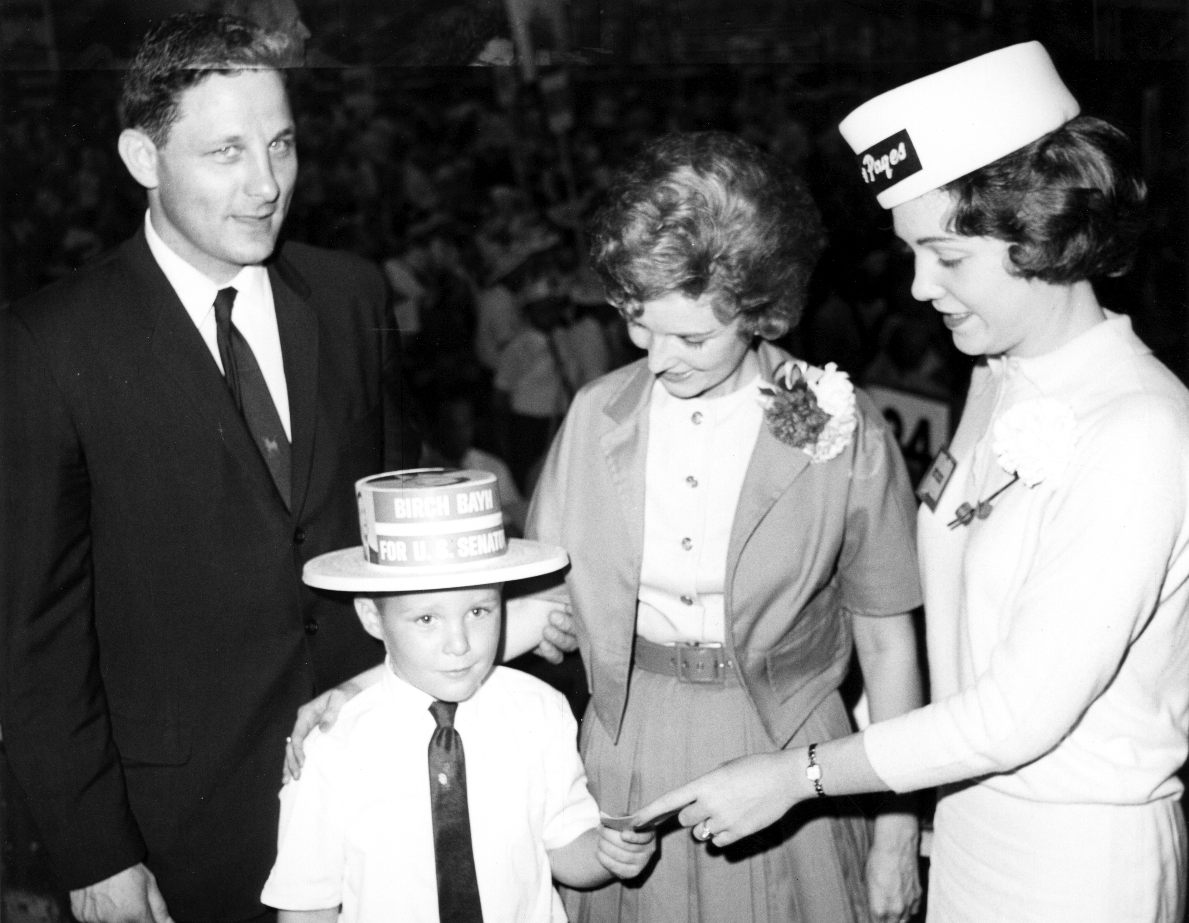 Birch Bayh with son Evan Bayh, wife Marvella Bayh and an unidentified woman during Bayh's 1962 U.S. Senate campaign in Indiana.